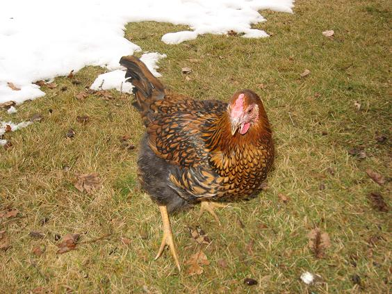 Gold Laced Wyandotte (hen) foraging for food in the back yard.